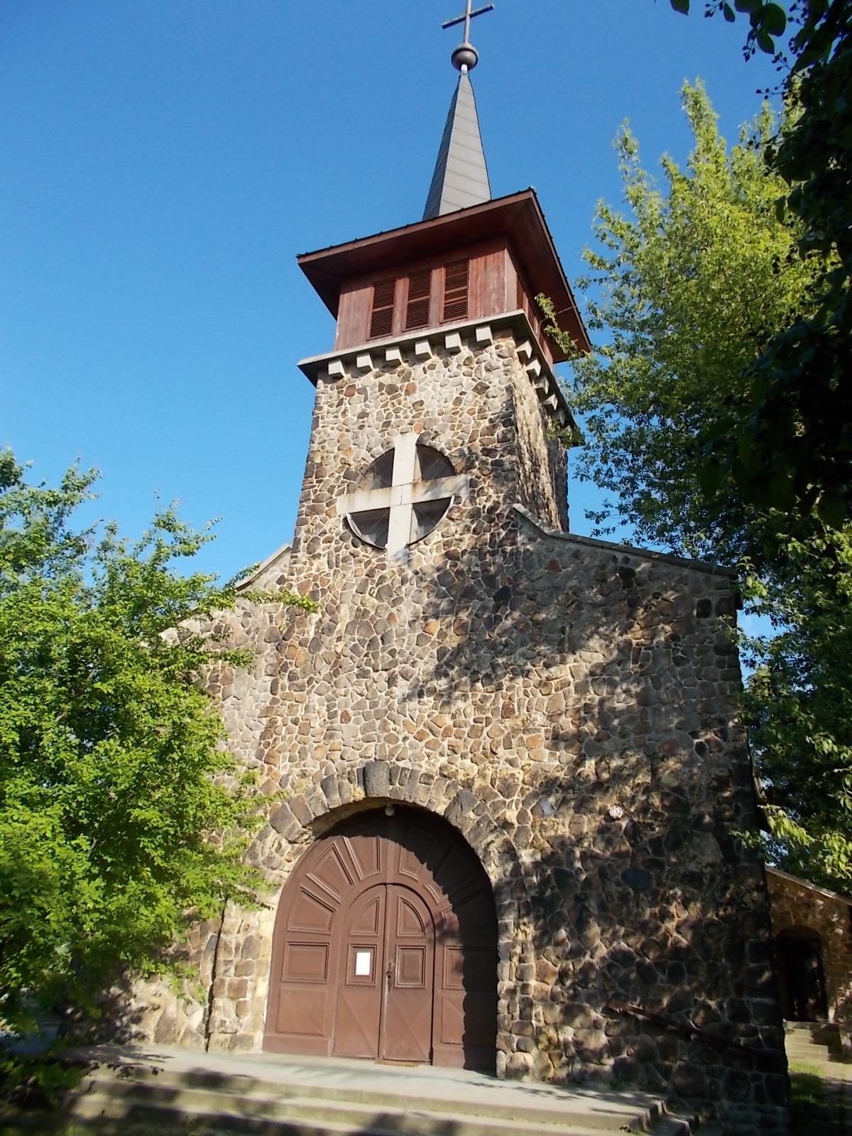 Sacred Heart Catholic Church. - Bóné Street, Agárd, Gárdony, Fejér County, Hungary.